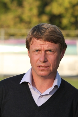 Aleh Heorhiyevich Konanau is a coach and former footballer of Belarusian nationality.